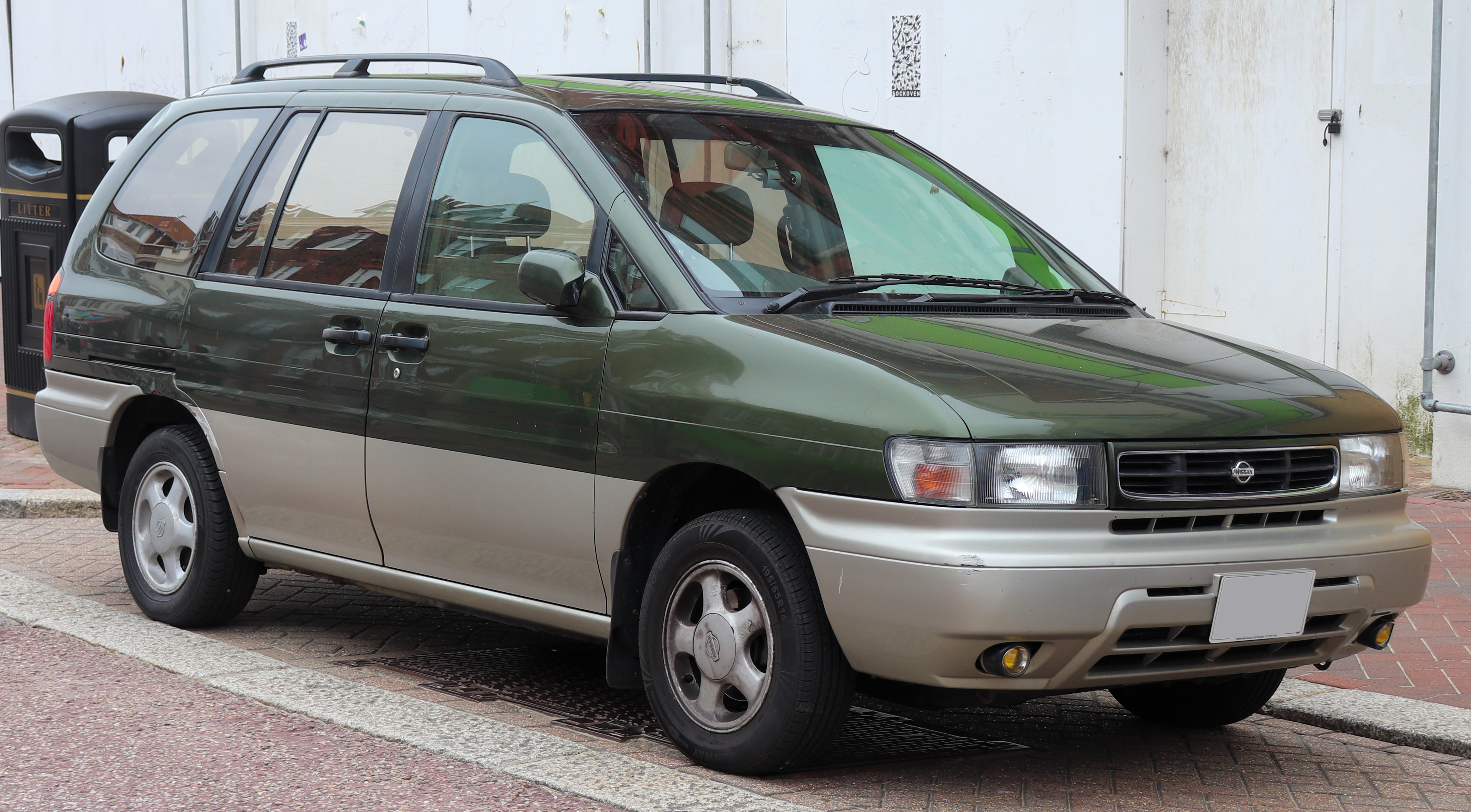 1996 Nissan Prairie Joy SLX 2.0 Front Taken in Weymouth